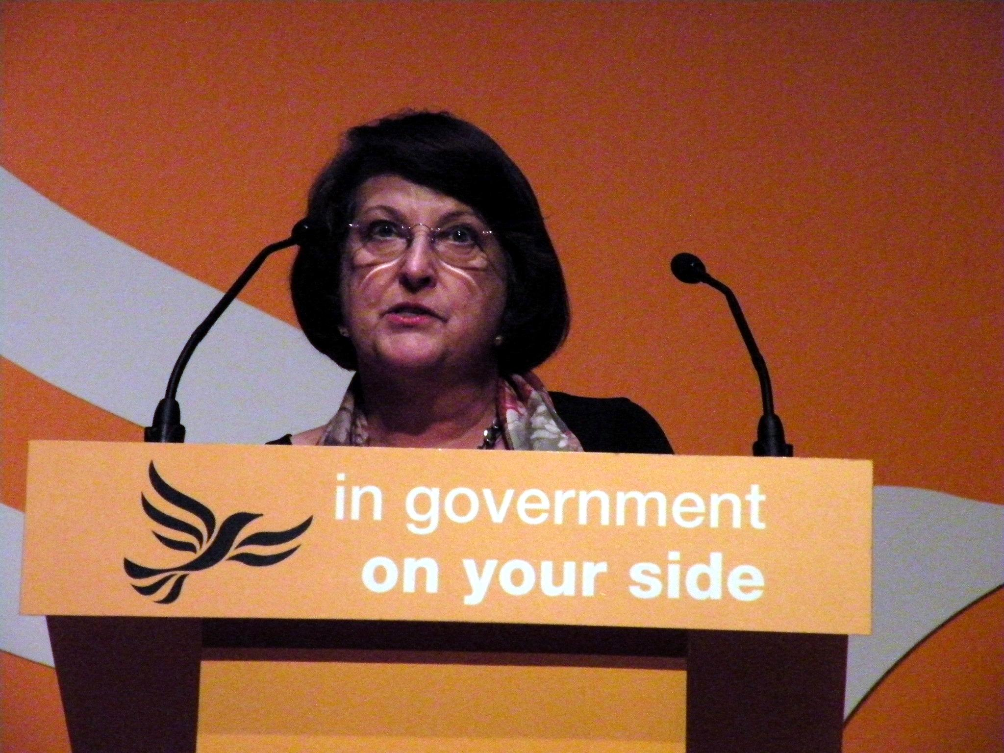 Catherine Bearder MEP addressing a Liberal Democrat conference in the The Sage Gateshead